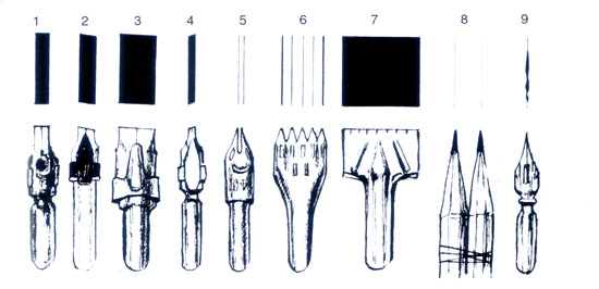 Writing utencils: stencils Письменные принадлежности